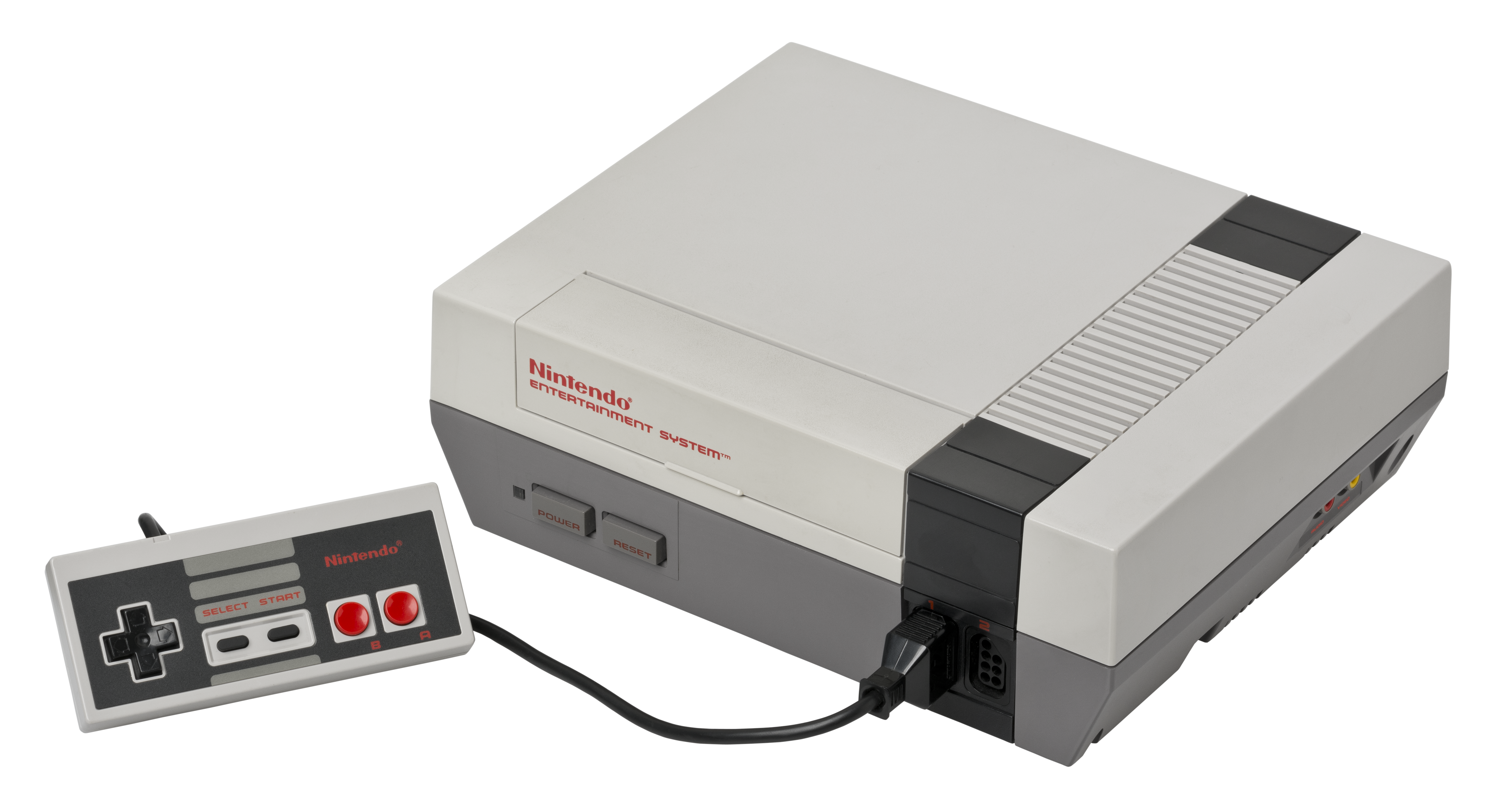 Transparent version of NES console